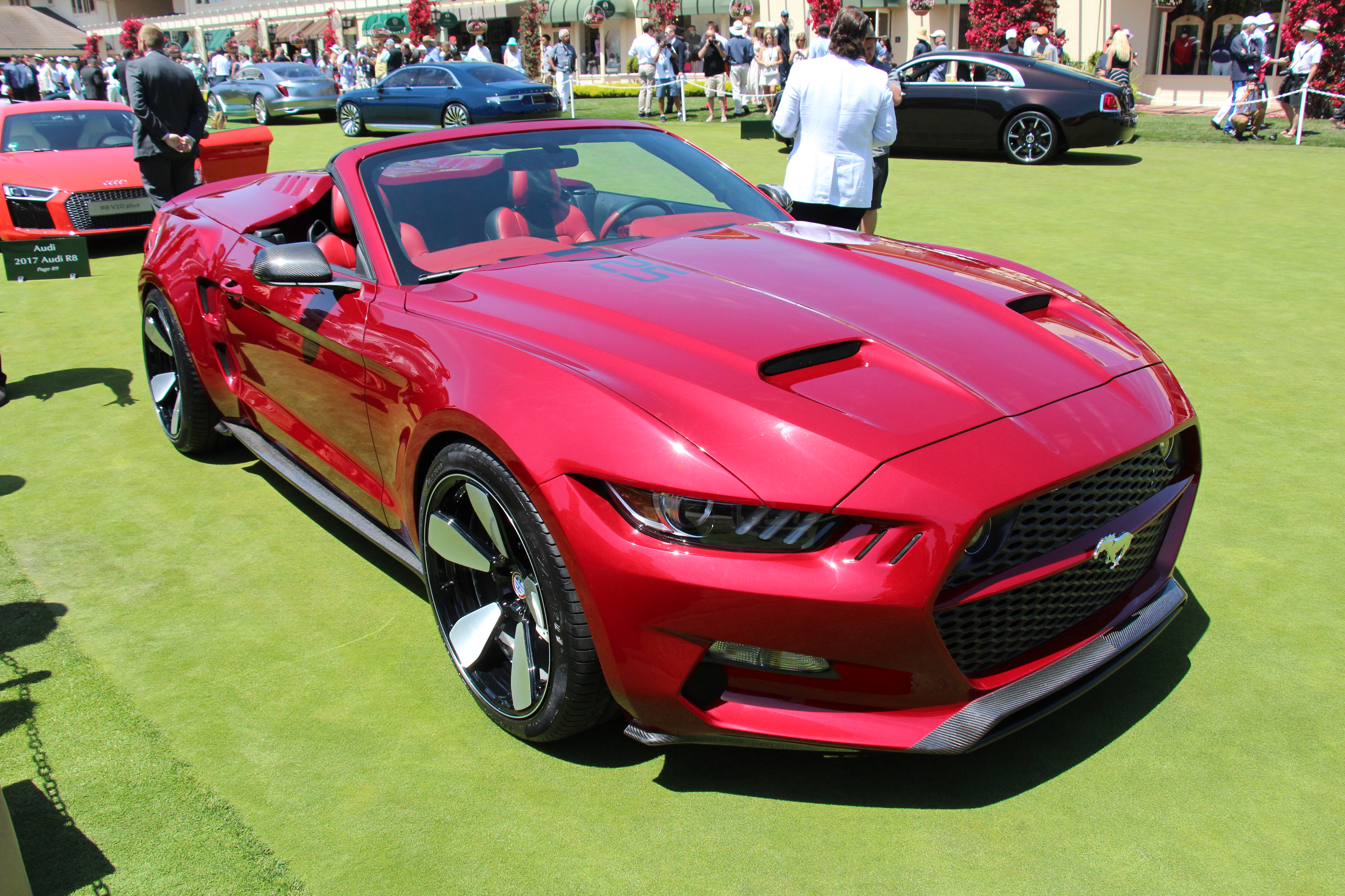 Created by Galpin Auto Sports and Henrik Fisker, this carbon fibre 725hp Super Mustang was on display at the 2015 Pebbles Beach Concours d'Elegance concept lawn. The Carbon Fibre cover converts the 4 seat convertible into a 2 seat speedster. It sits on 21 inch alloy wheels and runs a supercharged V8